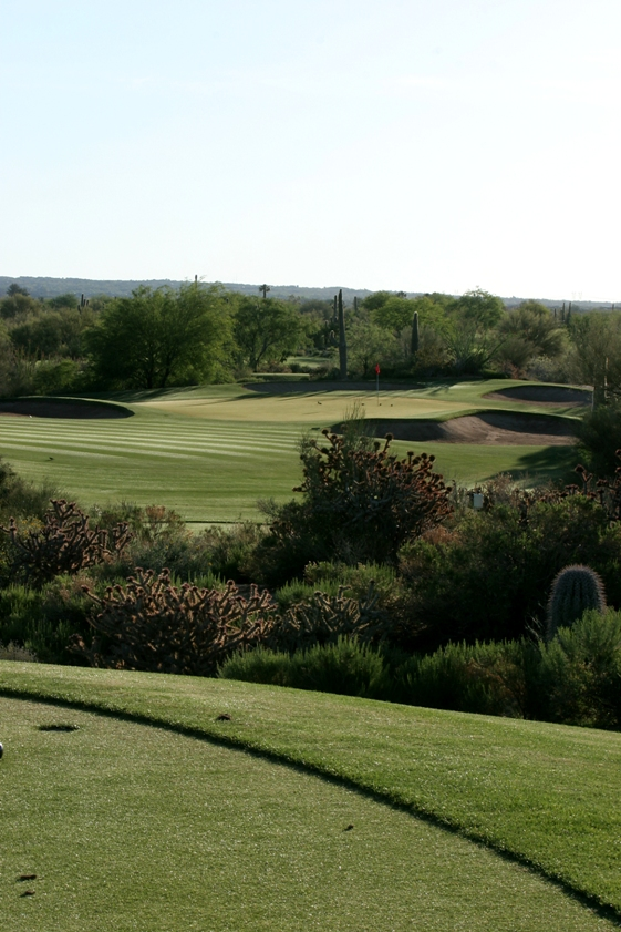 Photo of the 17th hole at Desert Forest, designed by Red Lawrence.